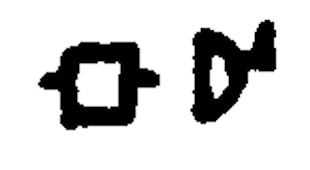 "Bodhi" inscription in the Brahmi script